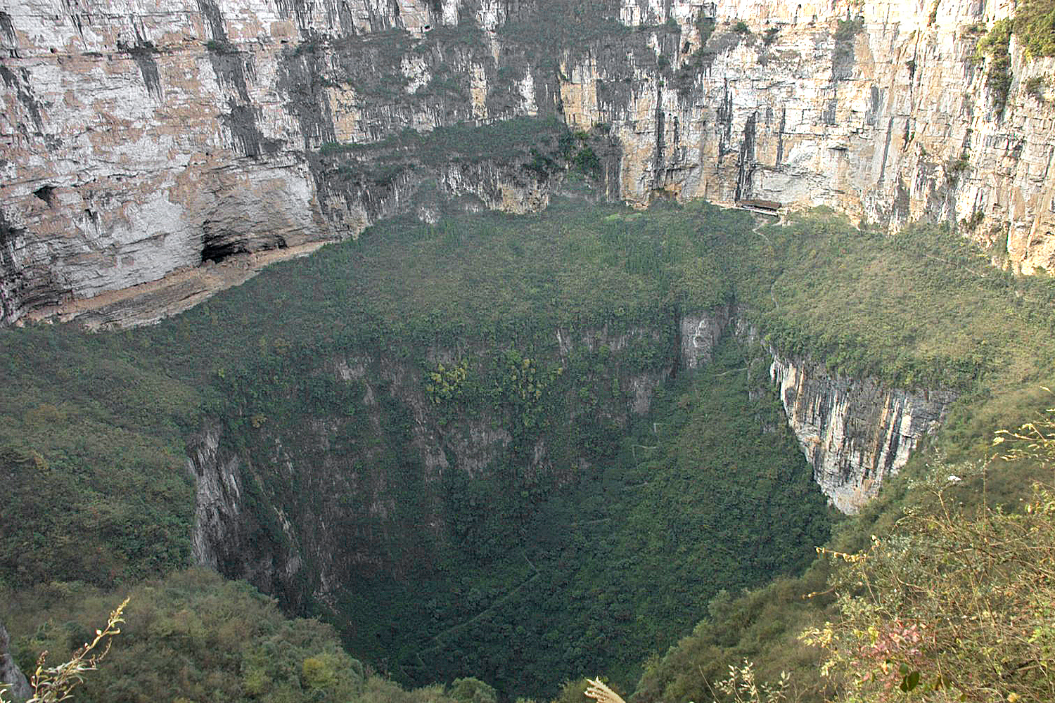 Xiaozhai "Tiankeng" (collapse of a river cave roof), seen from the southern rim; provincial-level municipality of Chongqing (before 1997 part of Province Sichuan). A new tourist road off Fengjie (at Yangtze River) to Xiaozhai (Little Village), leads to the world's finest tiankeng. Xiaozhai Tiankeng is 511 m deep from the lowest point of the vertical wall's rim. Its upper section is 600 m in diameter. The lower section is 300 m across, with vertical cliffs over 300 m high round its entire perimeter, except where a steep fan of collapse debris is banked against its northern wall. The tiankeng now has stone steps zigzaging down the debris fan to the floor.